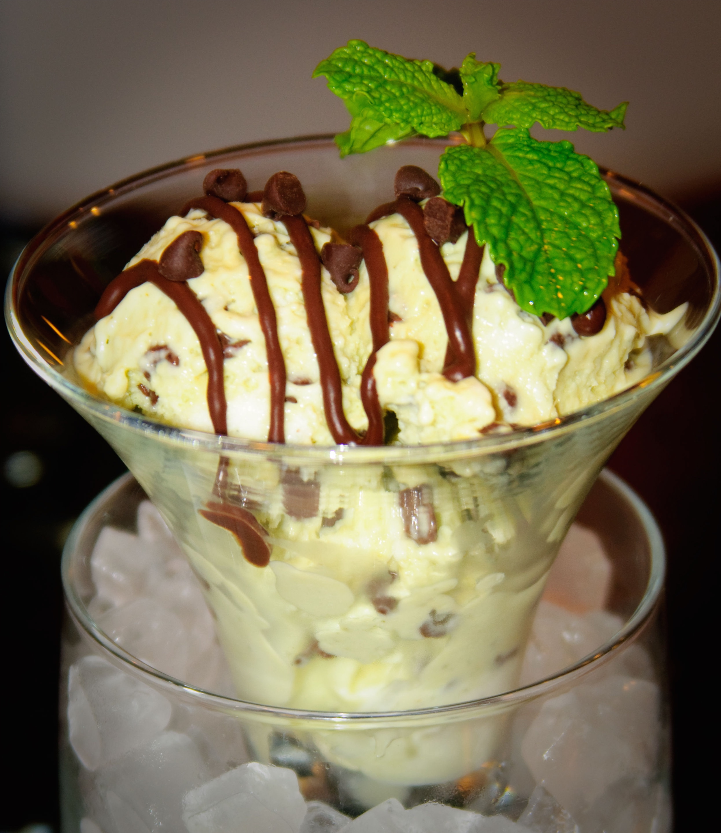 Mint Chocolate Chip Ice Milk from Little Oven